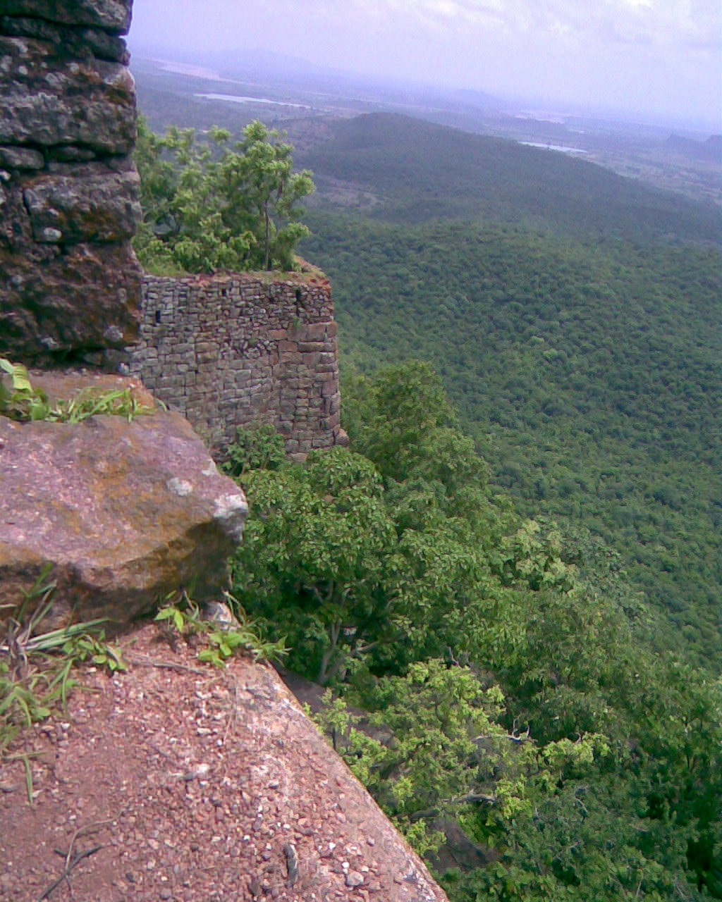 ramagiri khilla,andhra pradesh,karimnagar district